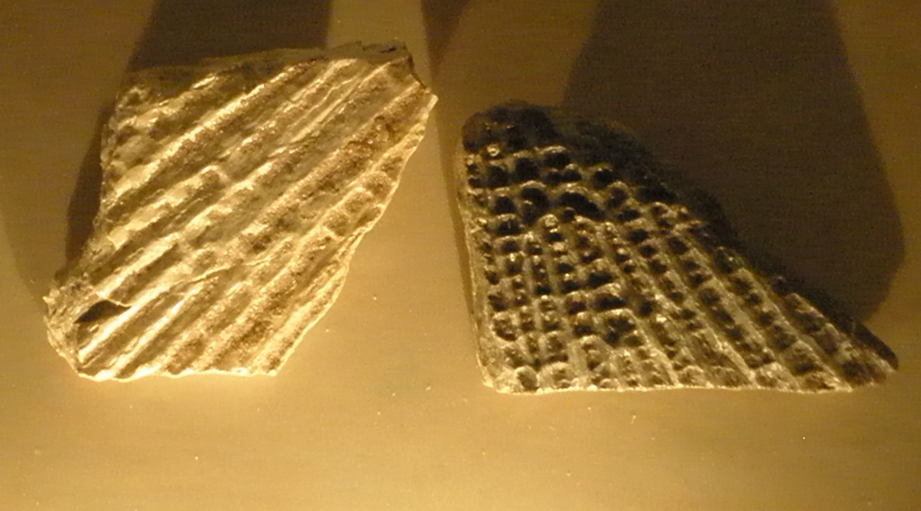 Took the photo at Museo di Storia Naturale di Venezia